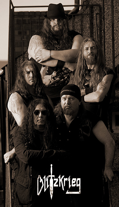 NWOBHM Band Blitzkrieg 2012